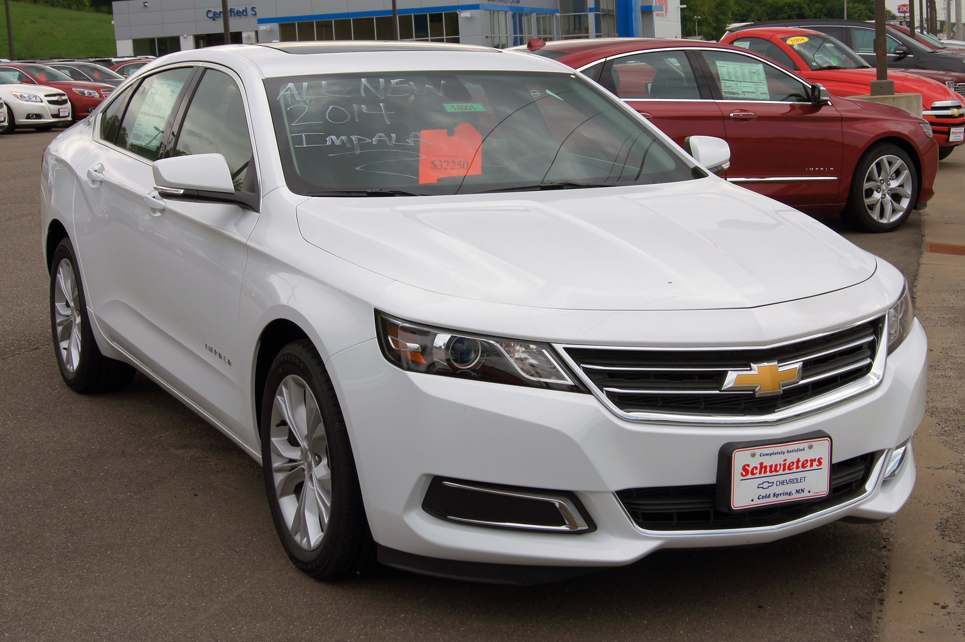 2014 Chevrolet Impala photographed in Cold Spring, Minnesota (picture cropped and edited by Shadiac).